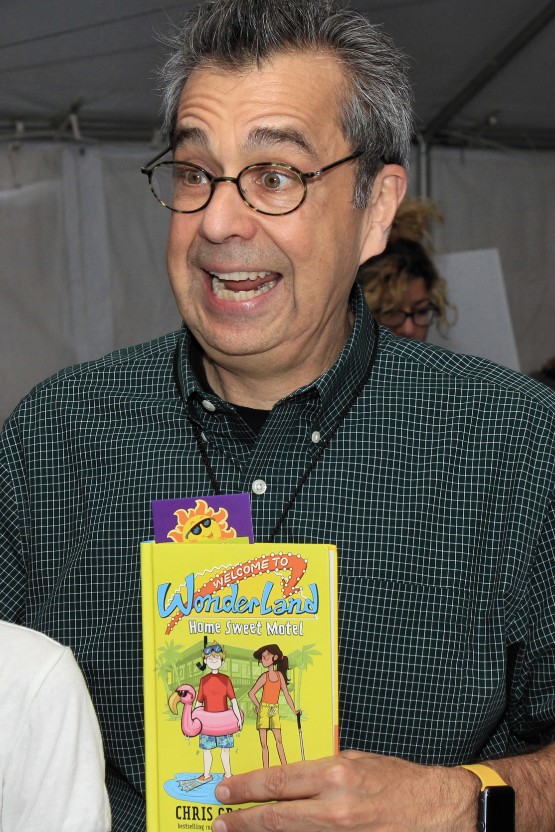 Author Chris Grabenstein at the 2016 Texas Book Festival.